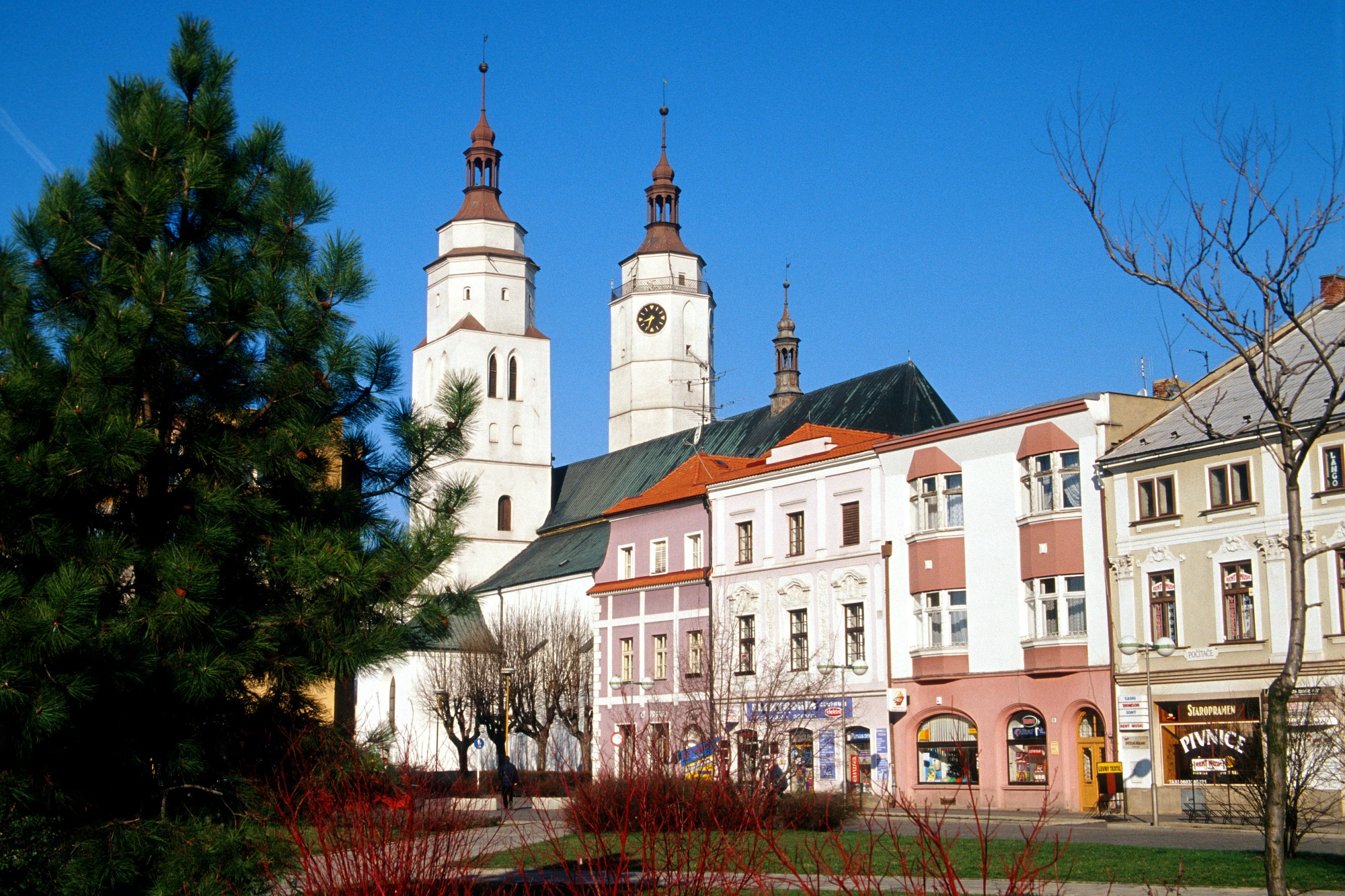 Main square of Krnov with St. Martin's church